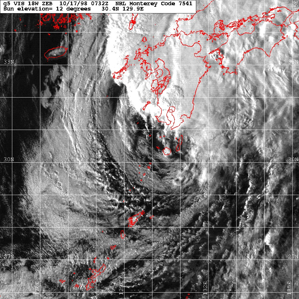 Satellite image of Typhoon Zeb making landfall on Kyushu on October 17, 1998.